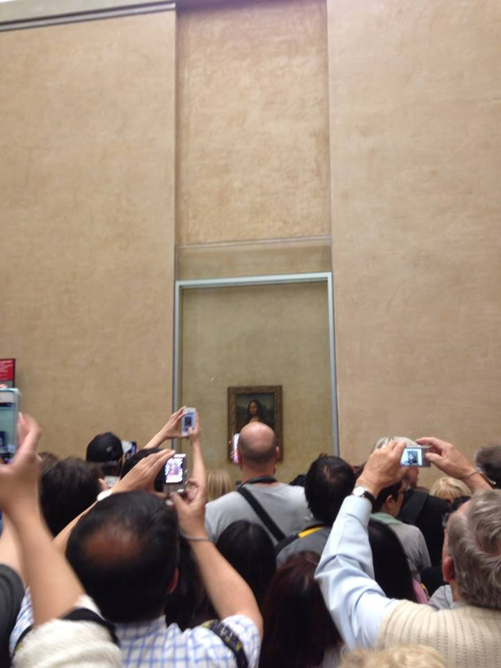 Picture of museum guests taking photos of the Mona Lisa at the Louvre.